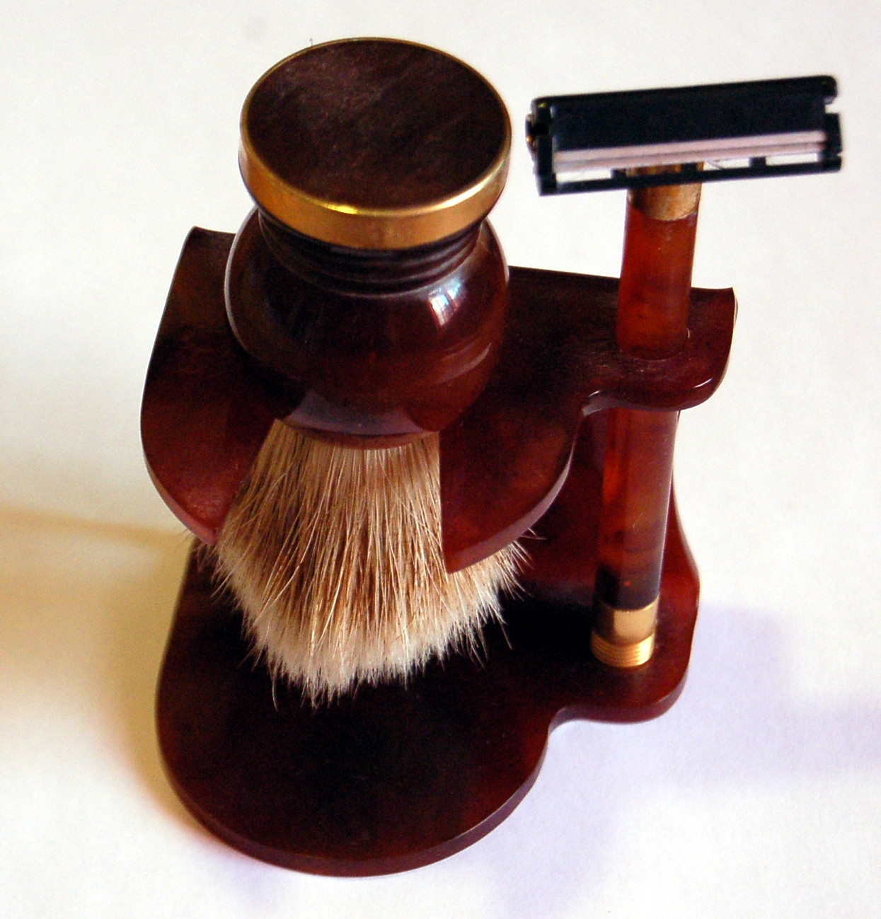 Shaving equipment